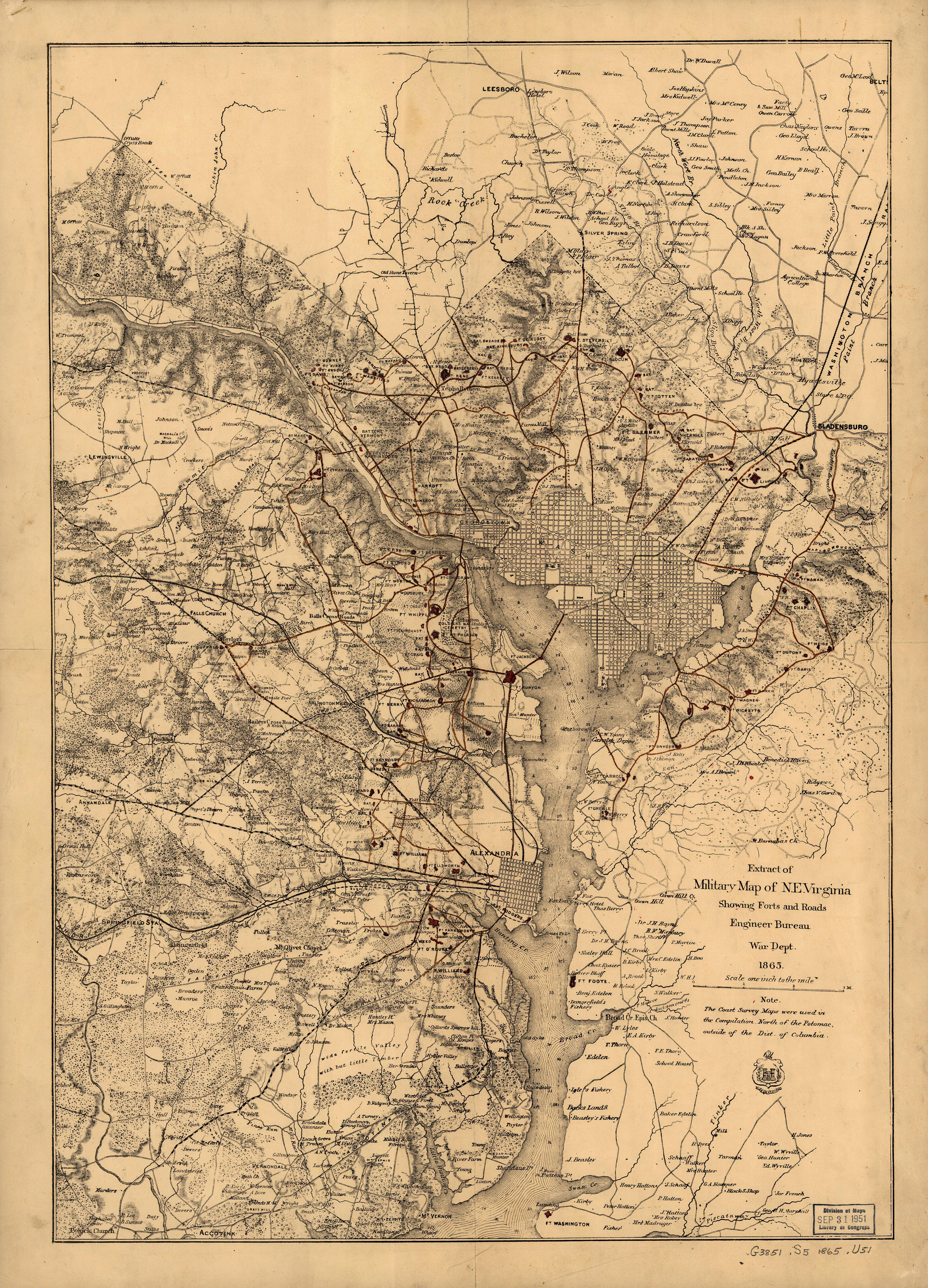 Map of American Civil War defenses of Washington, D.C. in 1865. US Government document, War Department (1865).